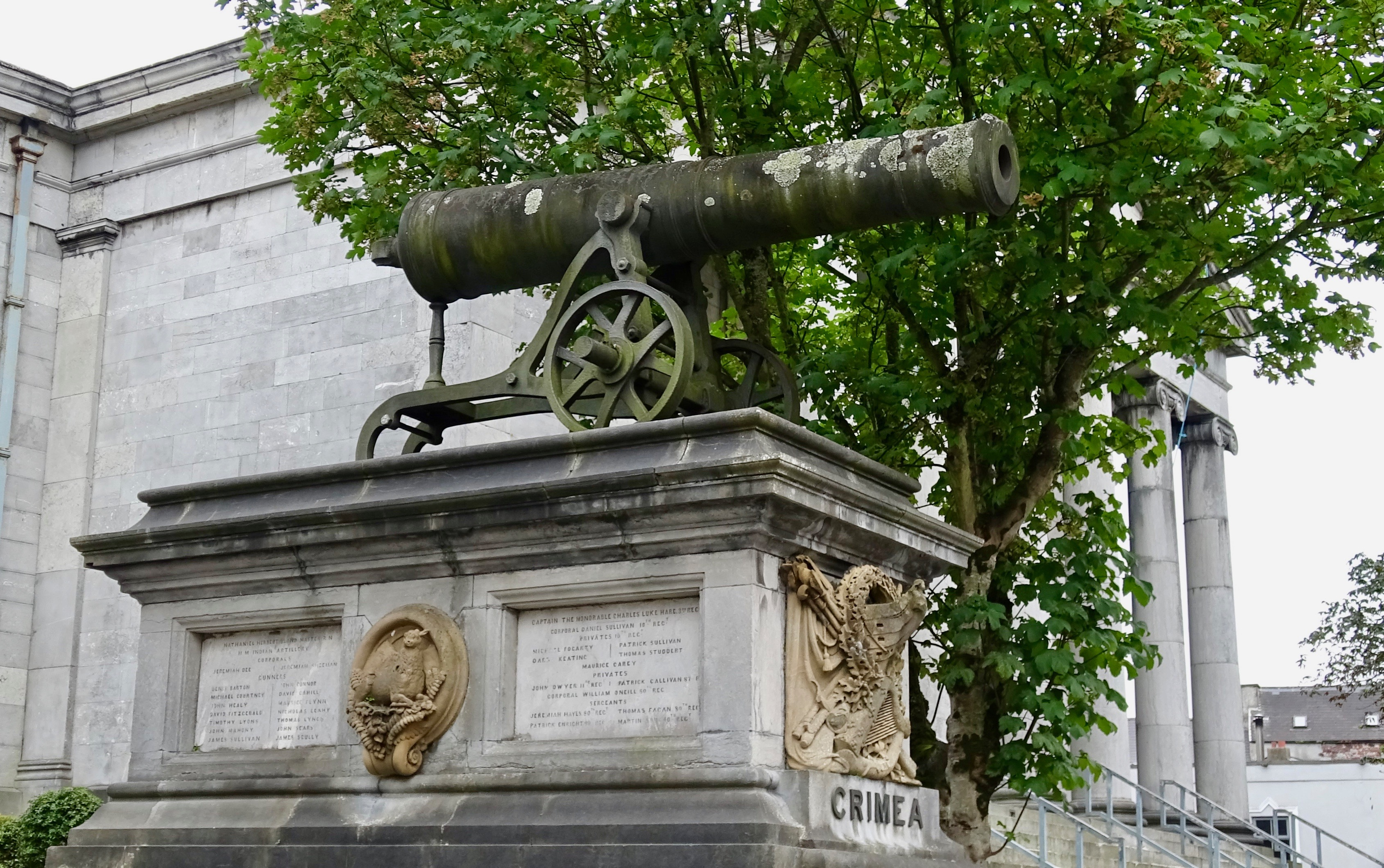 One of two Russian guns from Crimean war on display at Tralee, Co Kerry, Ireland with the sign: "In memory of the men of Kerry who fell in the service of their country in the wars in Russia, India and China 1854 to 1860".